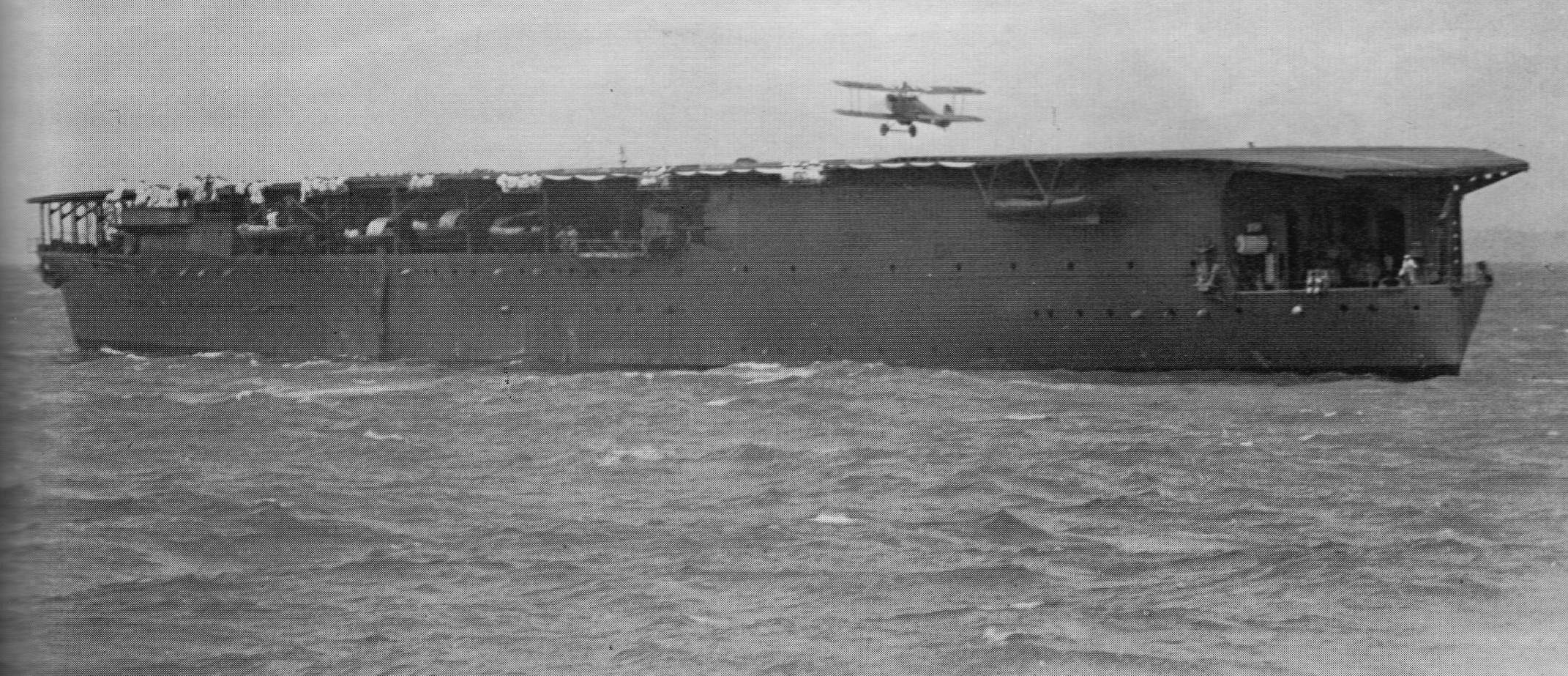 An unidentified aircraft lands on the Imperial Japanese Navy aircraft carrier Hōshō at an unidentified location sometime around the Shanghai Incident.